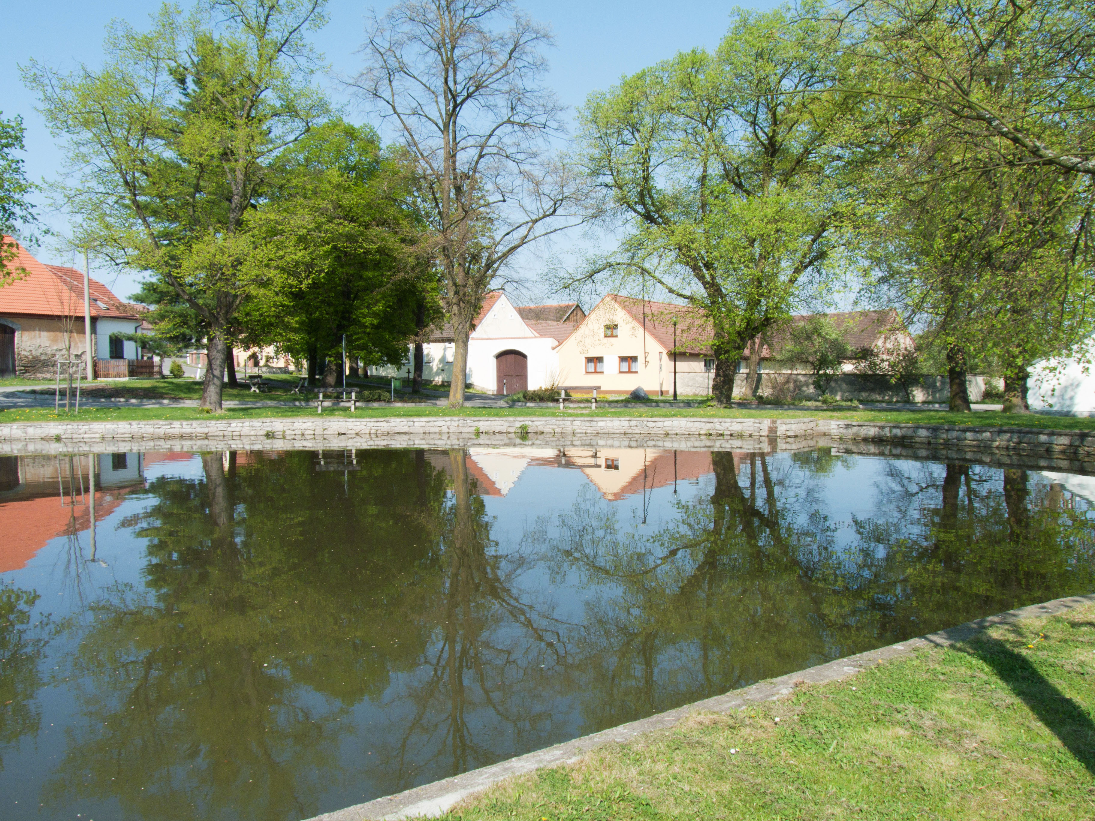 Pond in the village of Nebřehovice, Strakonice District, Czech Republic. Česky: Rybník v obci Nebřehovice v okrese Strakonice.